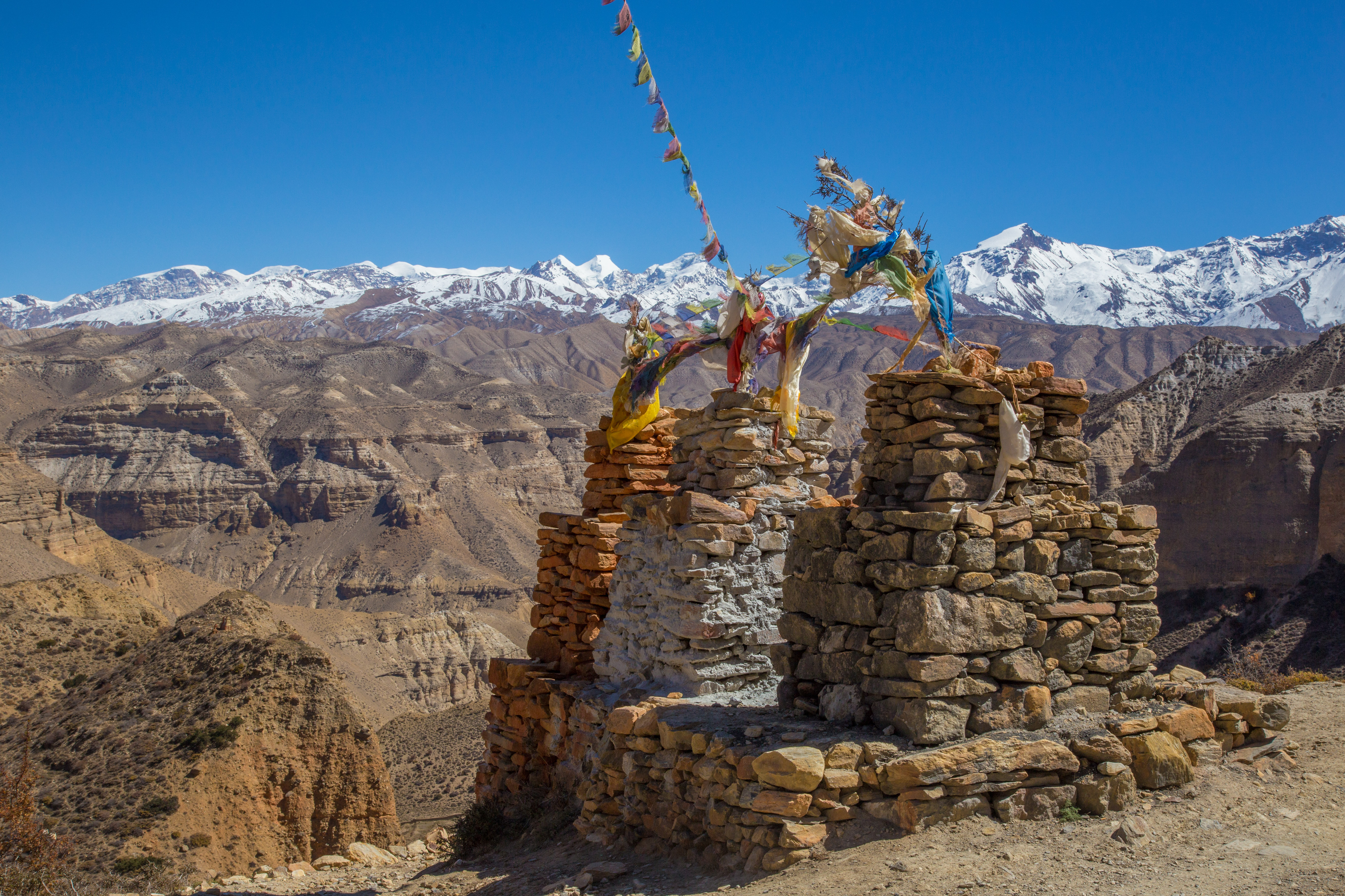 The Rigsum Gönpo are the three great popular gods and representations of them come in all sizes, forms and materials. Often seen as a group of three Chorten, their popular role as protectors or guardians means that their presence can be invoked as engravings on rocks, as pointings on walls, as woodblock prints, or simply as three running splashes of colour. - Behind the Himalayas, Rob Powell